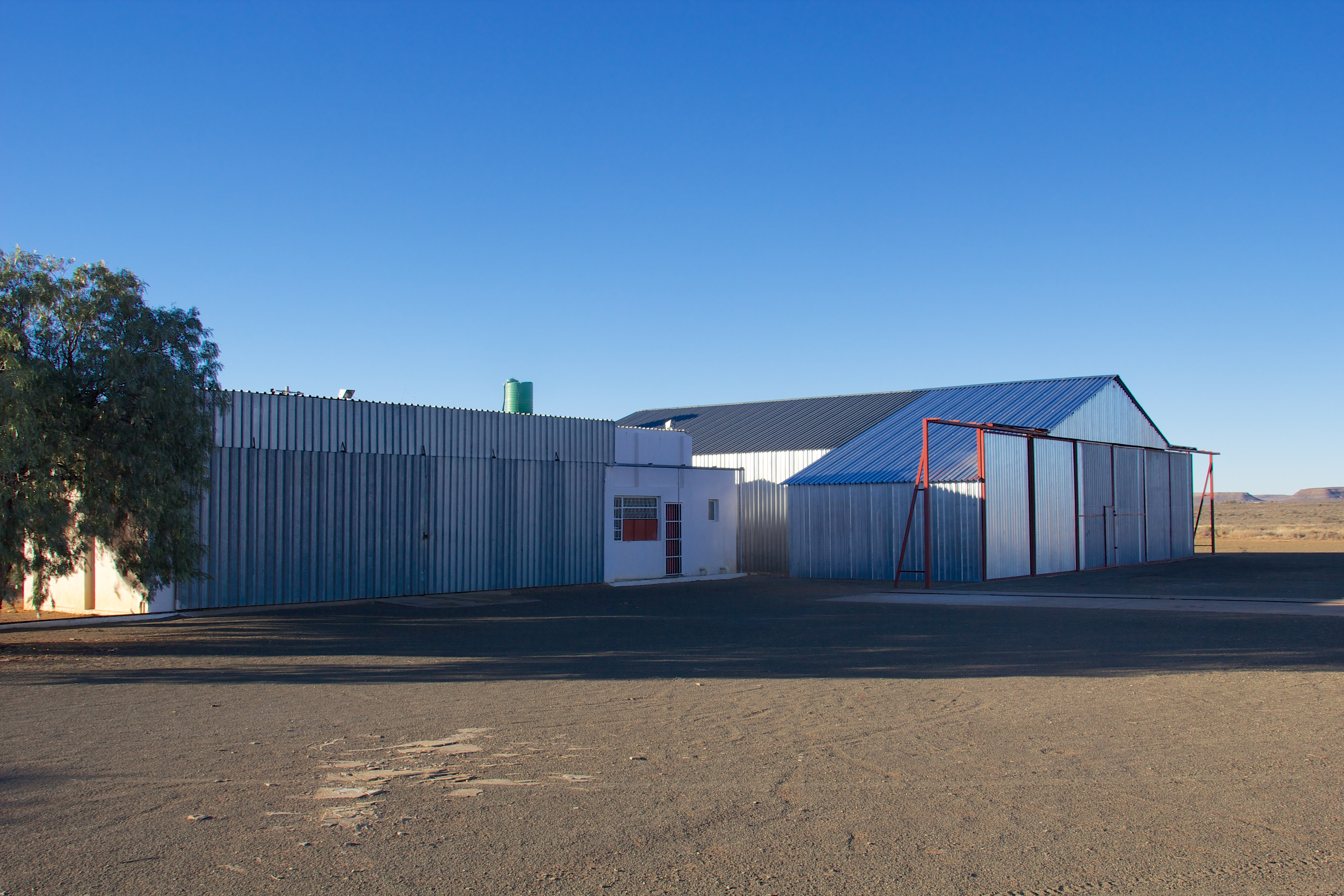 Carnarvan Airport, Northern Cape, South Africa.